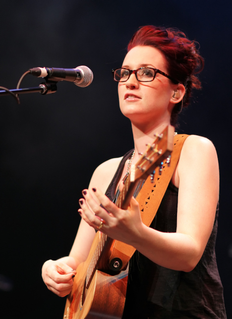 Ingrid Michaelson live in concert